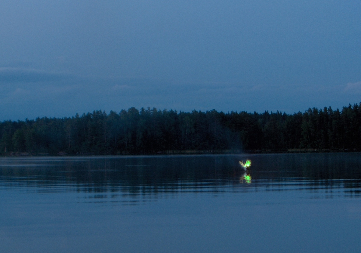 A fake Will o Wisp. Burning piece of birch bark at floating piece of wood. Colours of image have been edited. User:Tuohirulla